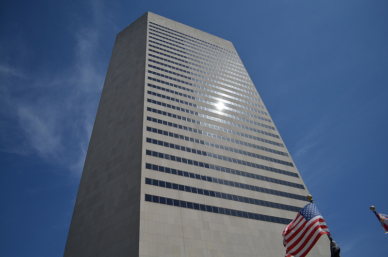 Visible difference by window cleaning on Stephen P. Clark Government Center building in Downtown Miami, Florida